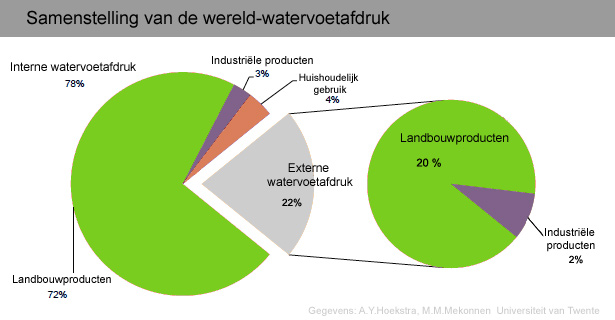 Diagram of the world water footprint, internal and external.